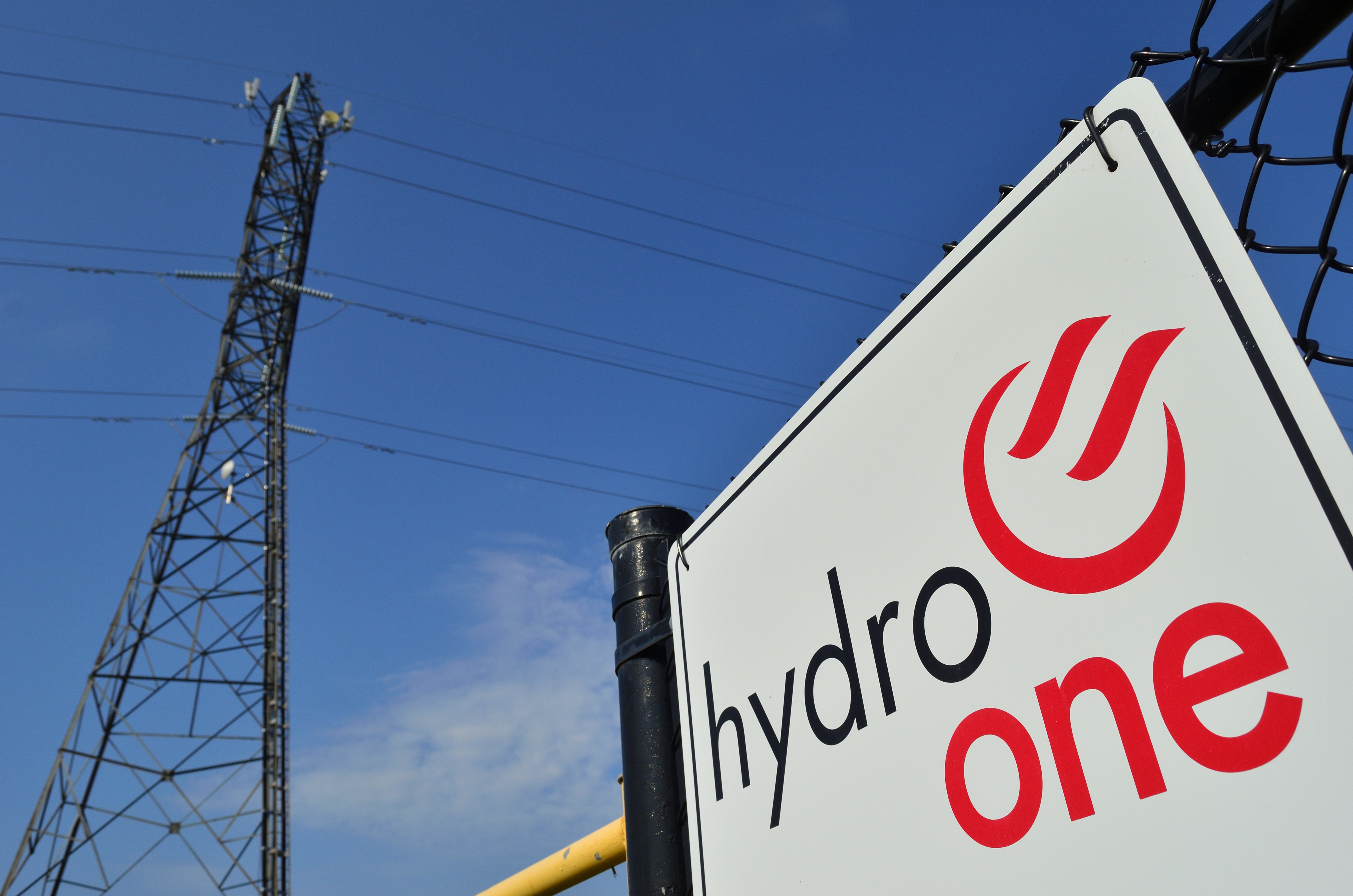 HydroOne Overhead power lines